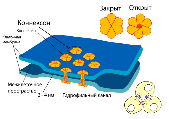 This file was taken from german wikipedia article (Blut-Hirn-Schranke) which was made under free licence. I changed german words in russian with Photoshop